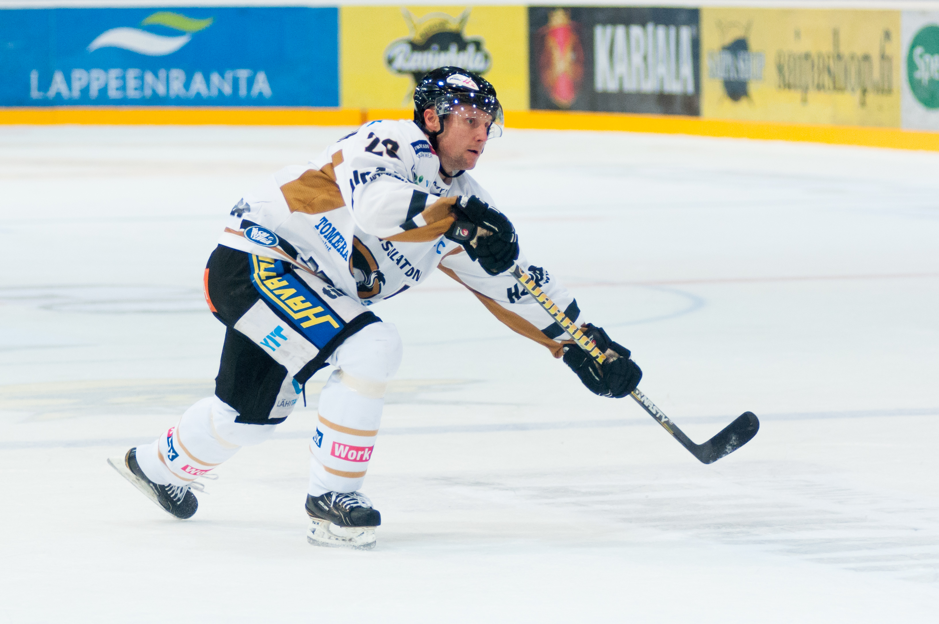 Mikko Lehtonen of Oulun Kärpät playing against SaiPa Lappeenranta in Lappeenranta, Finland.